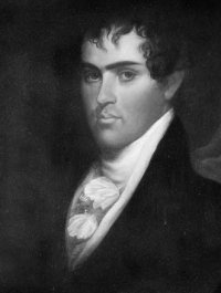 Robert Crittenden Ark Territory - portrait